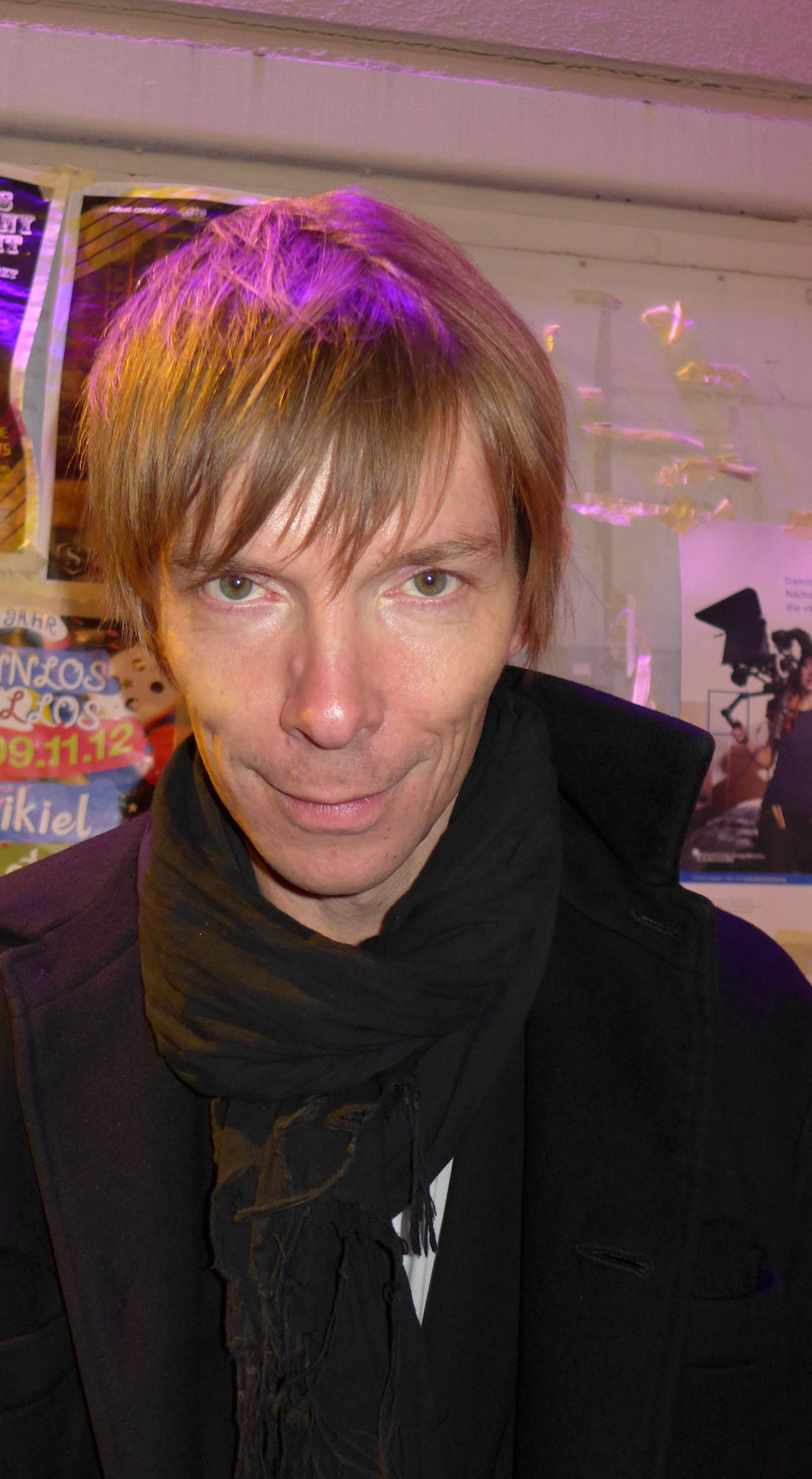 Curator and Kunsthalle Basel director Adam Szymczyk in Zurich